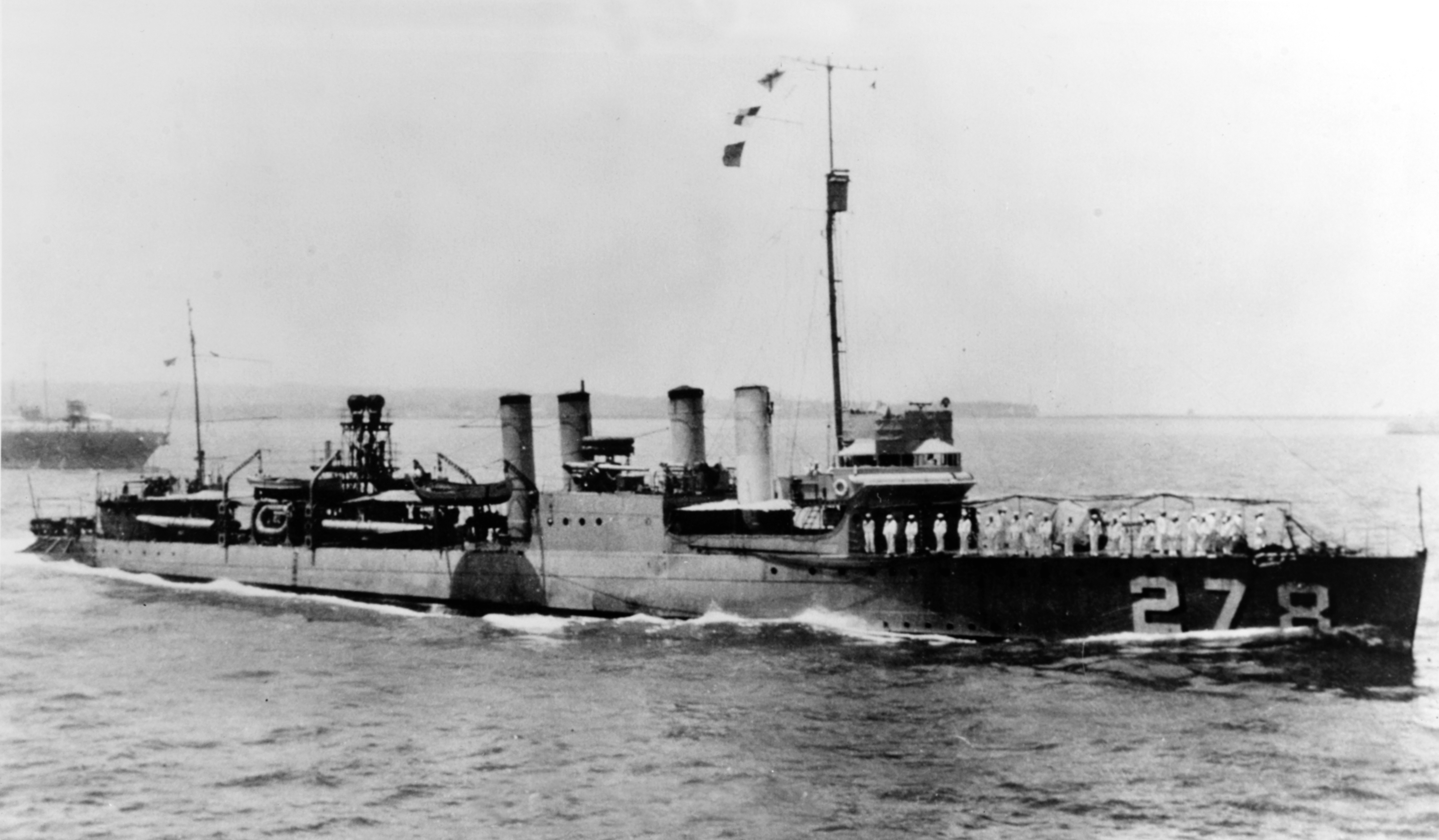 The U.S. Navy destroyer USS Henshaw (DD-278) underway in a harbour, with her rails manned, during the middle or later 1920s.